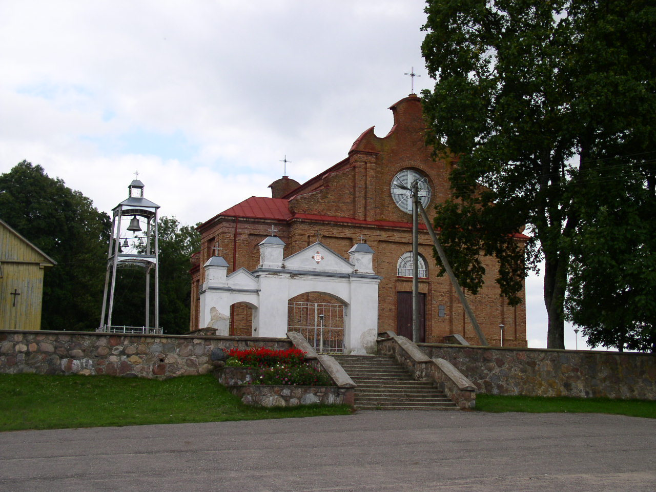 Church of Assumption of the Holy Virgin. Naliboki, Belarus.